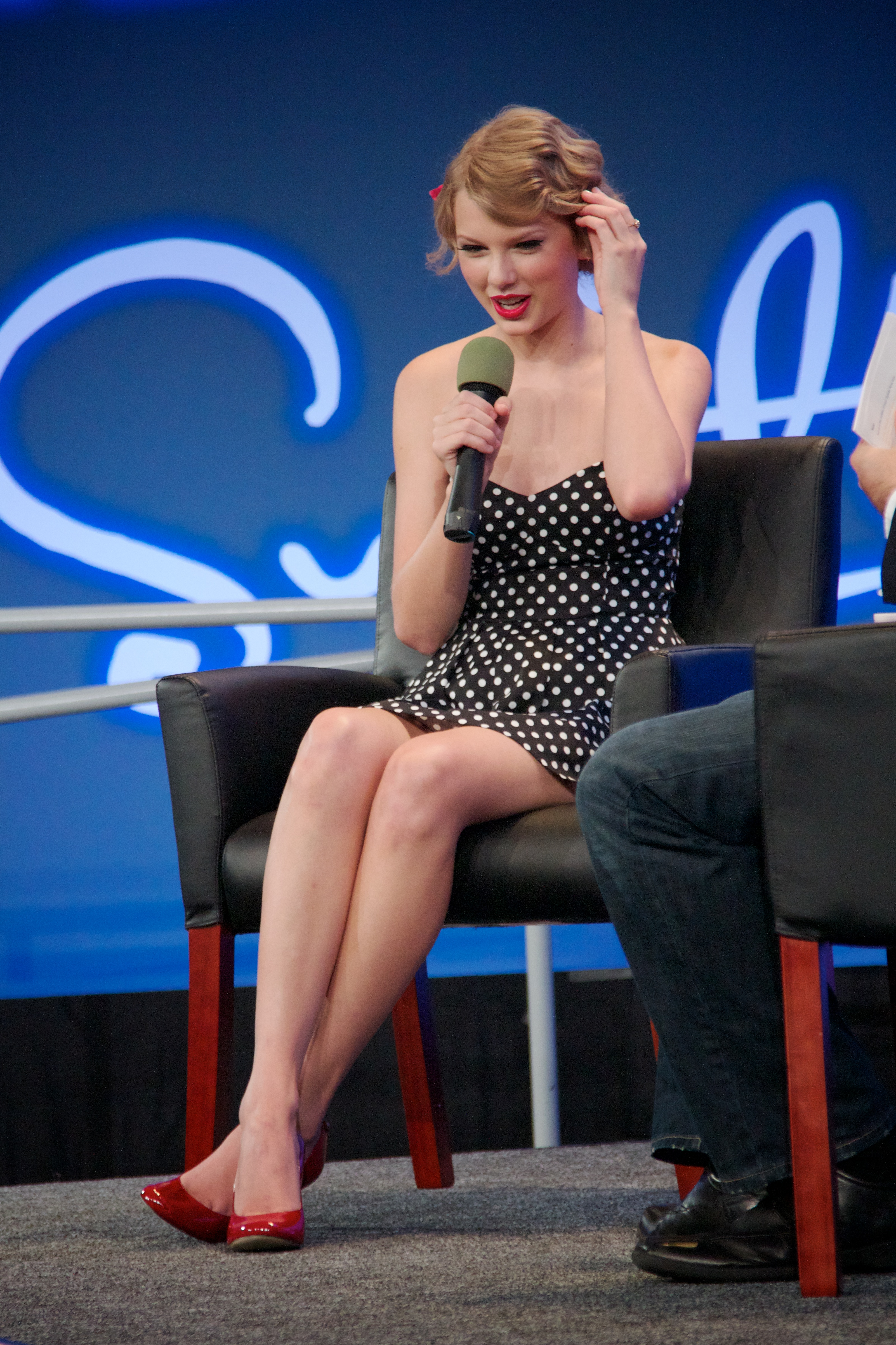 YouTube Presents Taylor Swift.